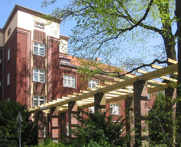 The Siedlung Birkenwäldchen (german for: settlement birchcopse) is a residential area in Berlin-Wilhelmstadt at the Grimnitzsee (lake). It is a listed building- as well as gardenmonument. It was built in 1926/1928 by the architect Richard Ermisch.